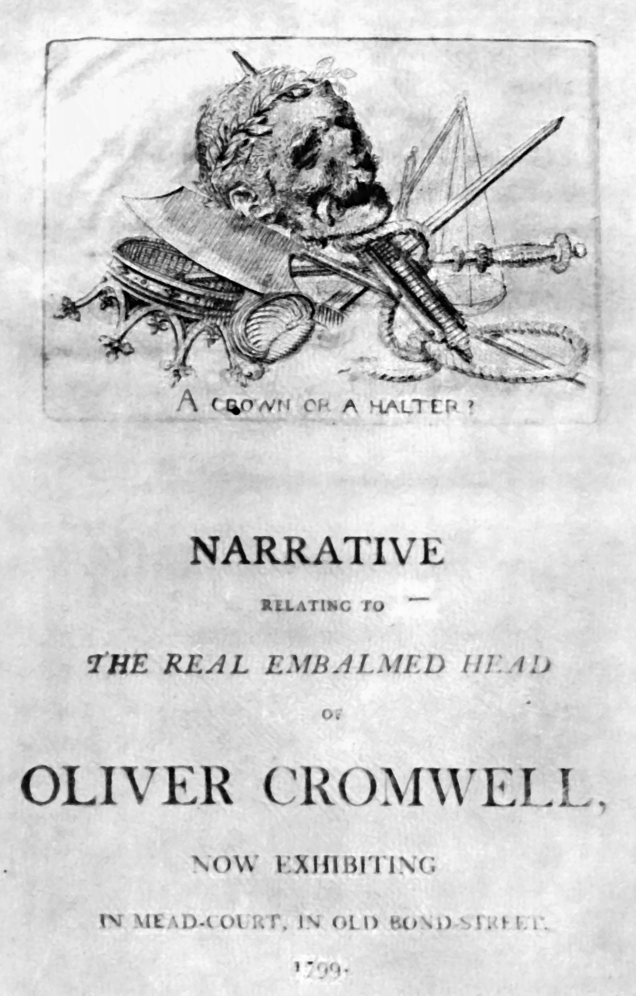 A poster advertising an exhibit of Oliver Cromwell's head, 1799